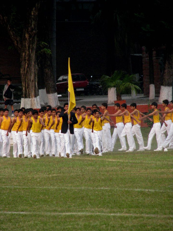 Kashmir House Marching Squad